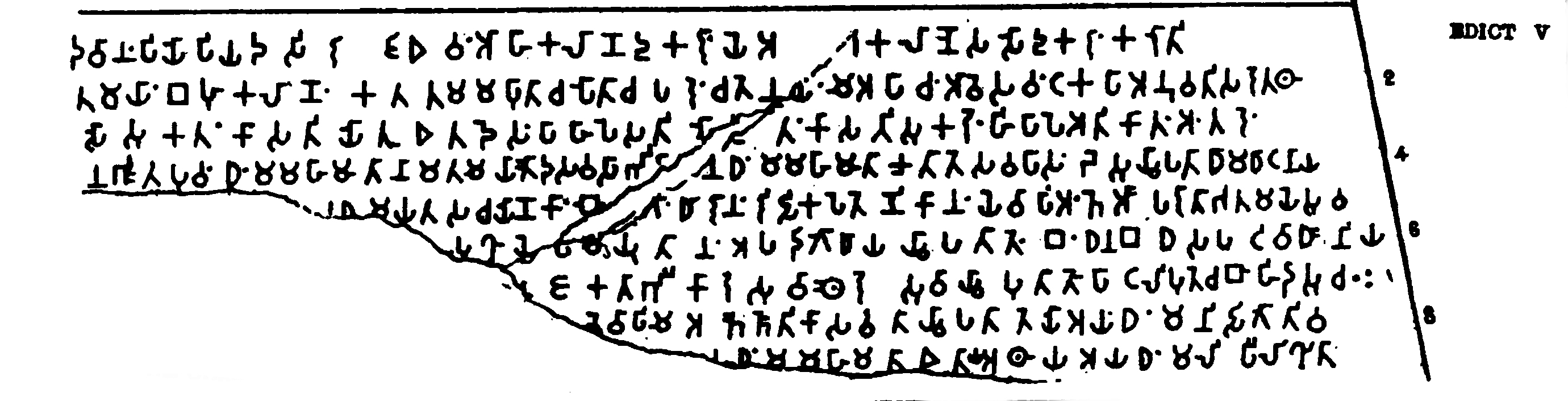 Girnar Major Rock Edict No5